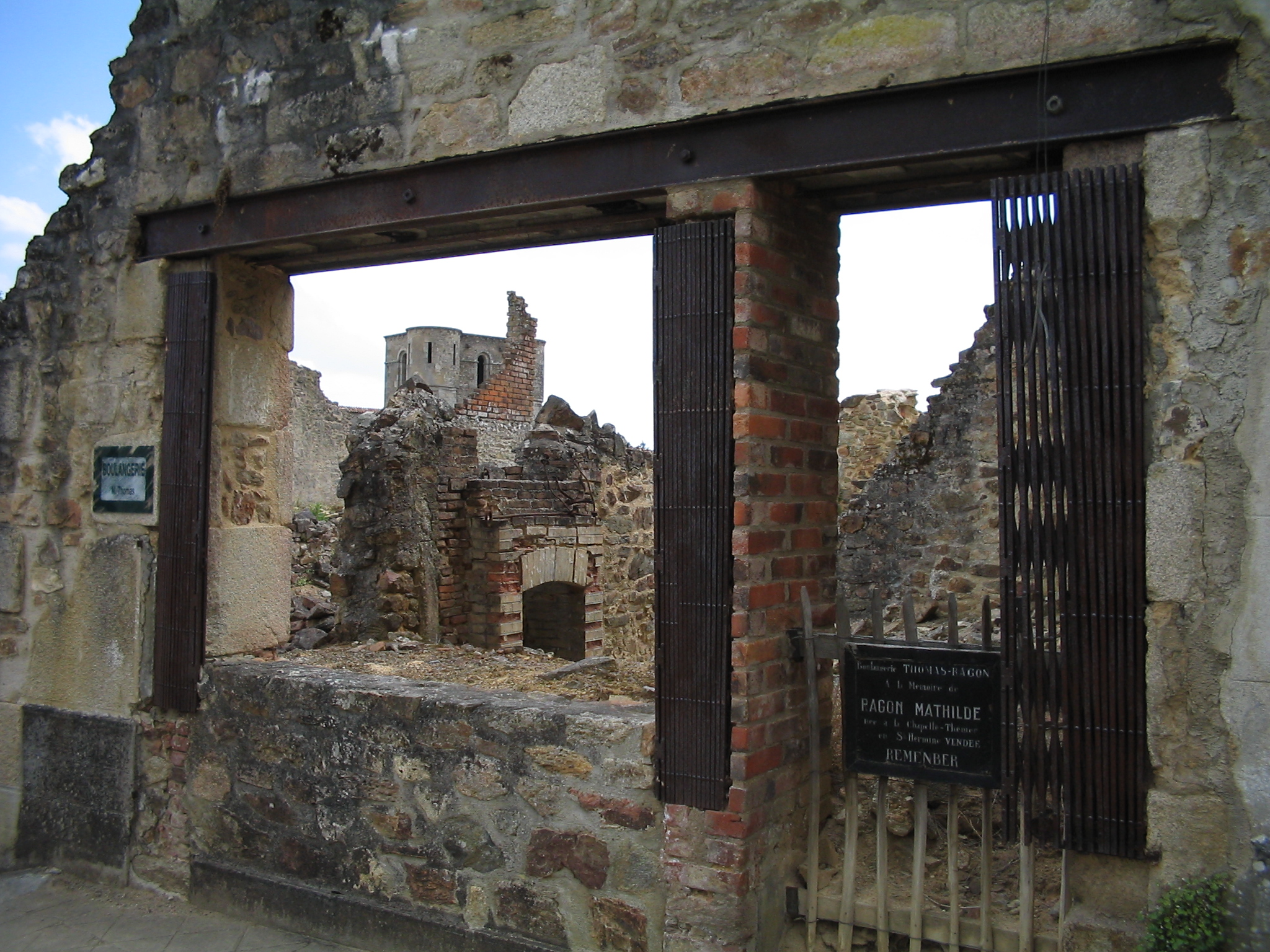 Oradour-sur Glane - Boulangerie (bakery) Thomas-Ragon. This is the entrance to a bakery house called "Boulangerie Thomas-Ragon". All ruined houses in Oradour-sur-Glane have small signs which informs who lived there at the time of the destruction. This is a photograph which I took during a visit to the French village Oradour-sur-Glane on June 11 2004, exactly 60 years after its destruction by the German army during World War II.